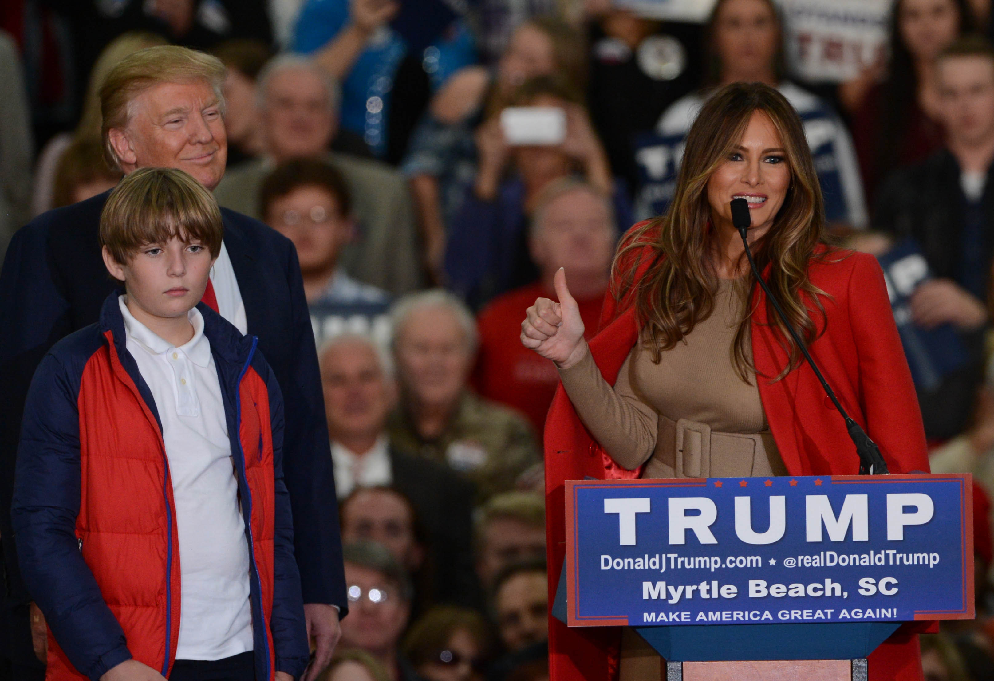 First Lady of the United States Melania Trump speaking at a campaign event for her husband in 2015.